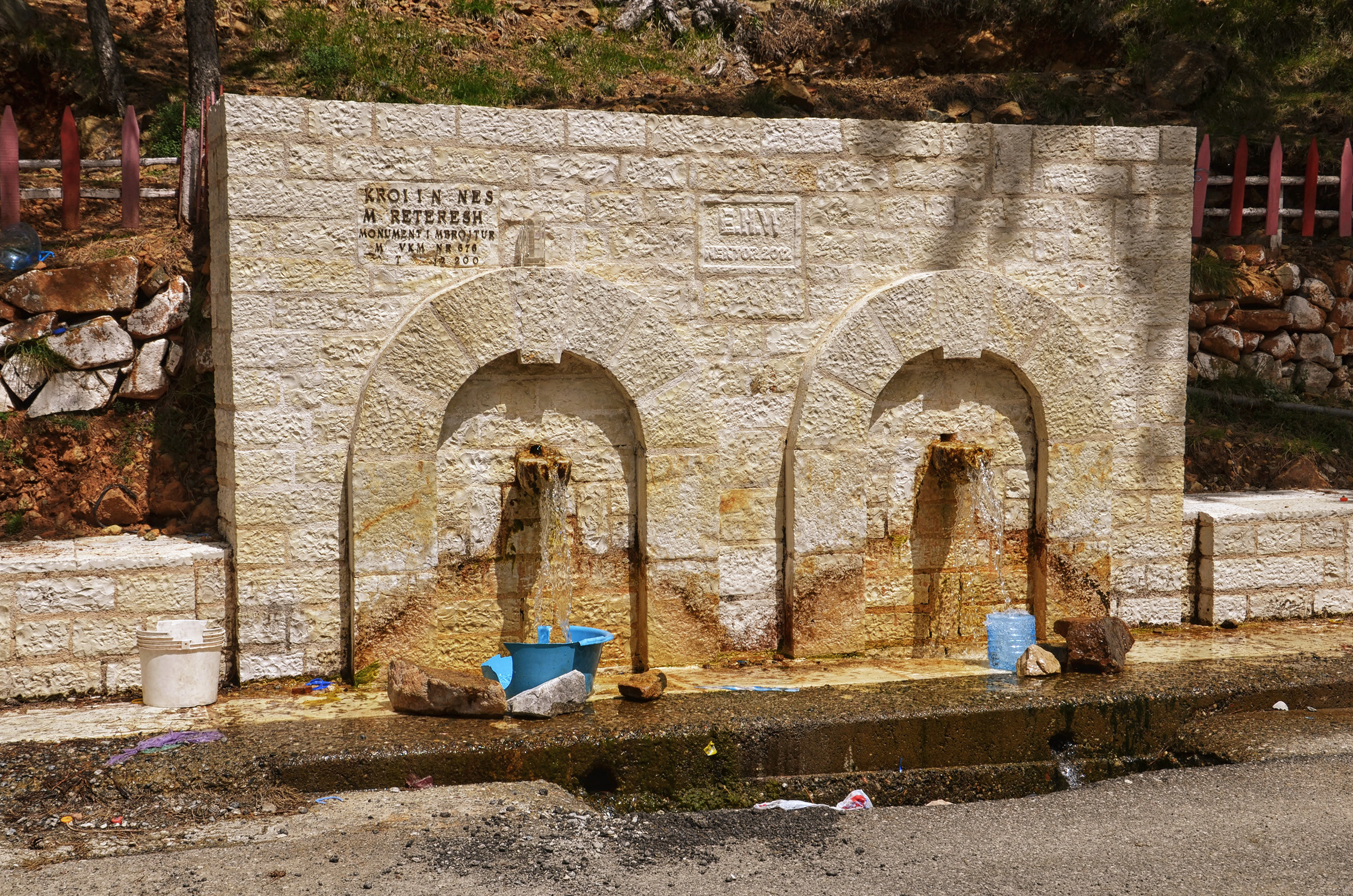 The Queen Mother Spring in the Qafë Shtamë National Park